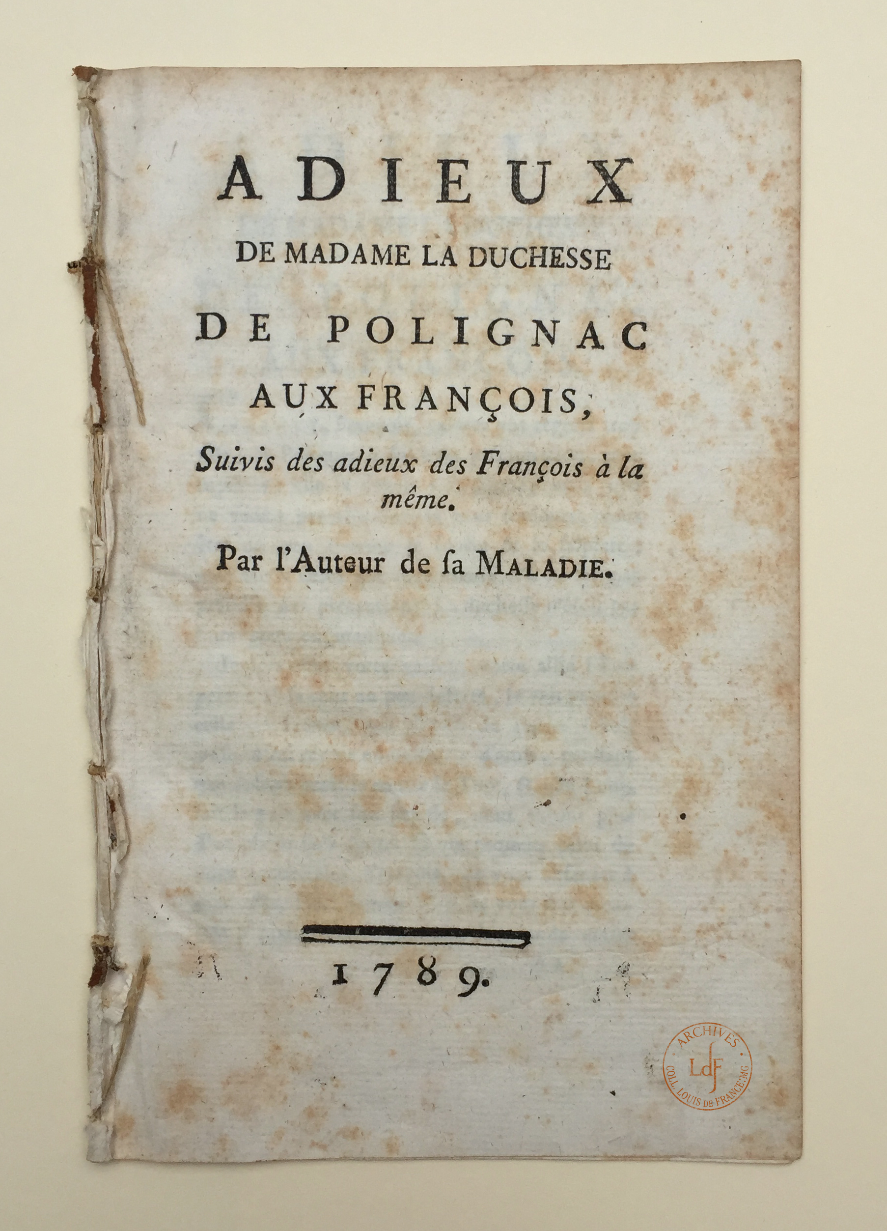 CLdf-PB0004: Pamphlet, "Adieux de madame la duchesse de Polignac aux françois, suivis des adieux de François à la même" (cover page). The pamphlet was printed anonymous in the year 1789 under the pseudonym "Par l´Auteur de sa Maladie". It contains Text against the hated countess, who had left Versailles and France for safety reasons directly after the storming of the Bastille. The Pamphlet is subdivided into the two parts "Adieux de madame la duchesse de Polignac aux François (Farewell of the countess de Polignac to the people of France)" and "Adieux des François a la duchesse de Polignac (Farewell of the french people to the countess de Polignac)". _______________ Title: Collection Louis de France, Publications, CLdF-PB 0004: Adieux de madame la duchesse de Polignac aux françois, suivis des adieux de François à la même; Year: 1789; Dimensions: 125 x 193 mm; Pages: 14p/ vergé; Location: Dortmund/ Germany, Collection Louis de France